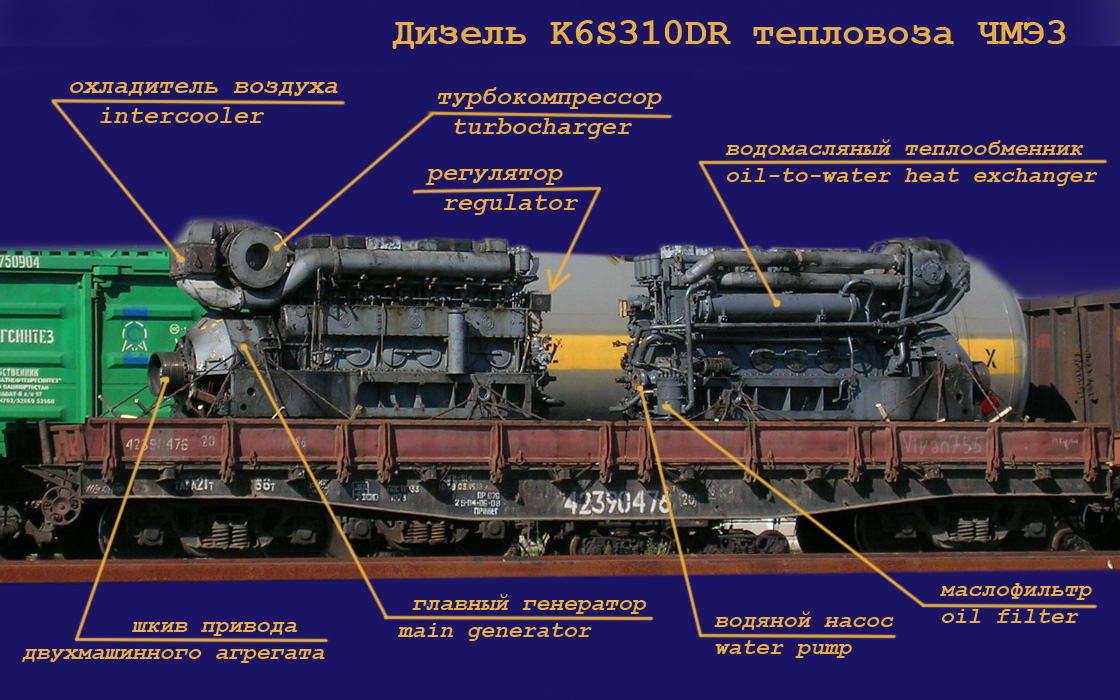 993 kW diesels K6S310DR from shunters ChME3 on the rail platform, Orenburg region, Russia